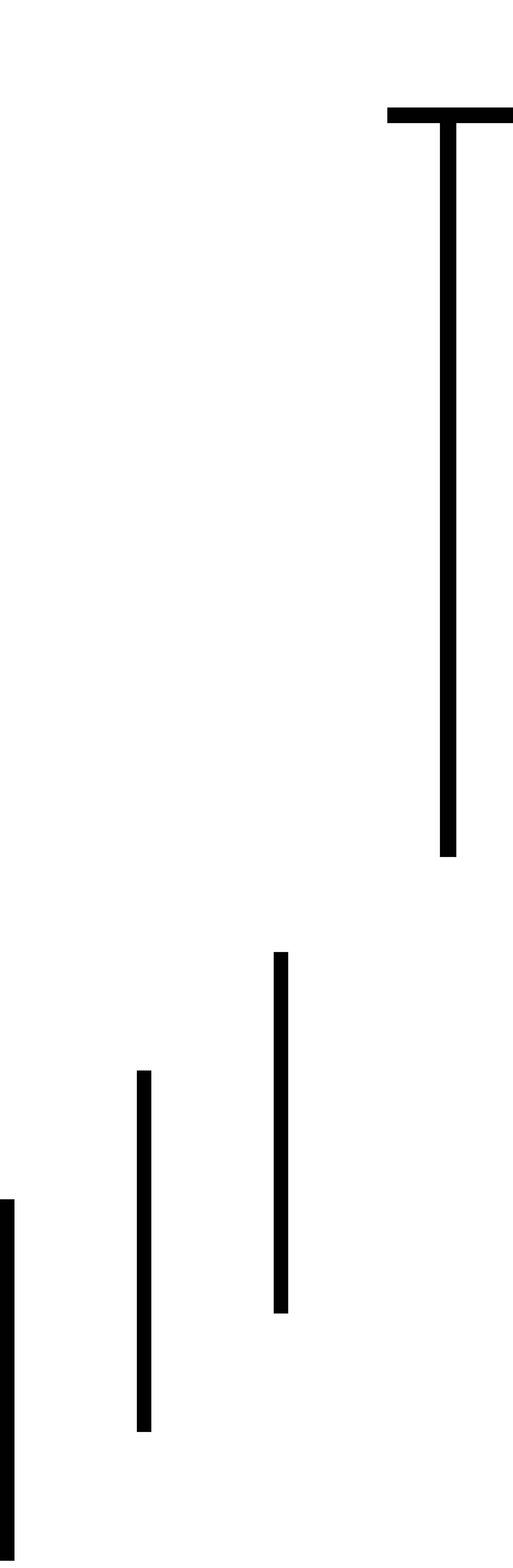 Bearish dragonfly